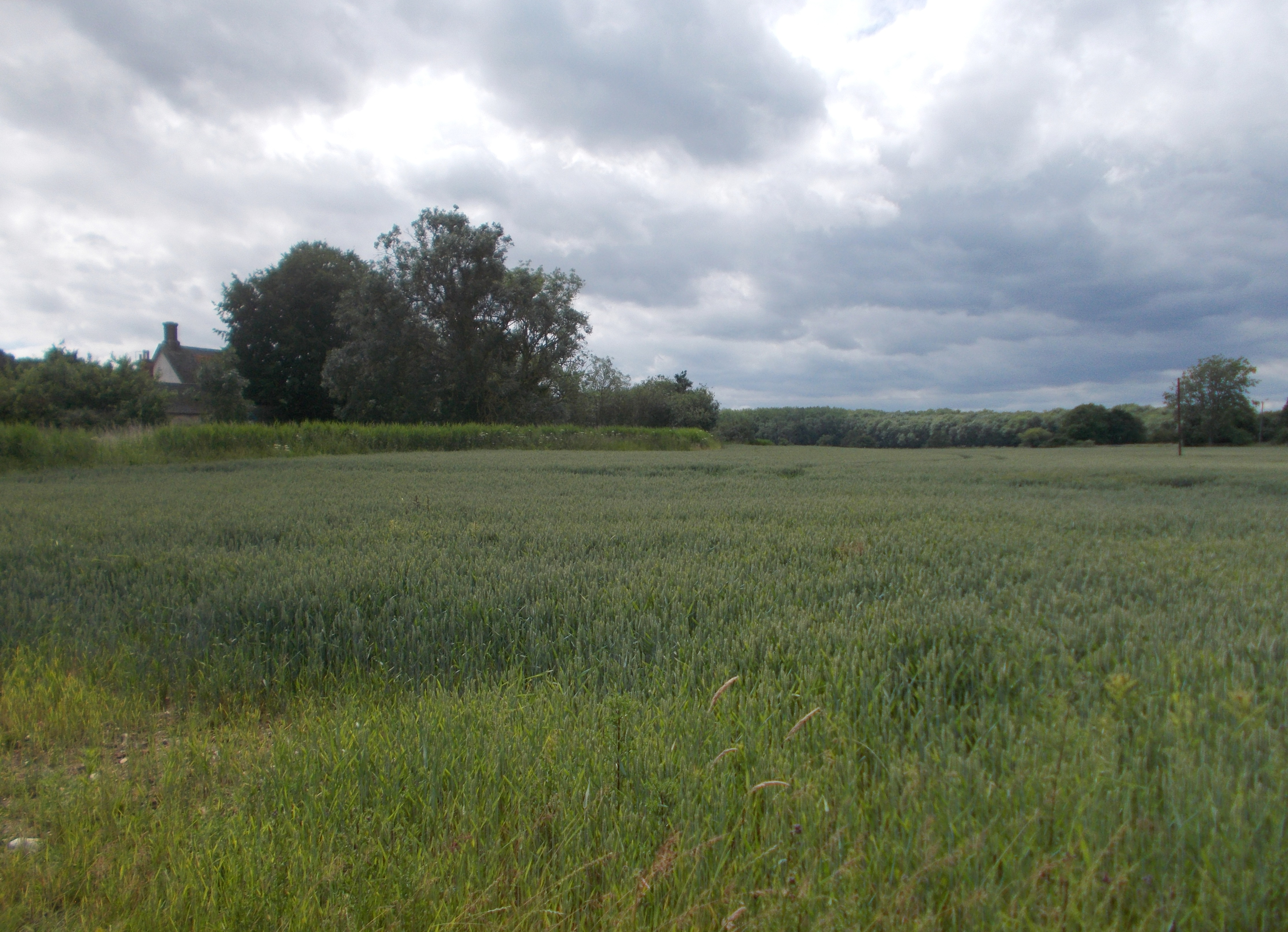 Site of Flixton Priory, Suffolk, overlooking the Waveney Valley